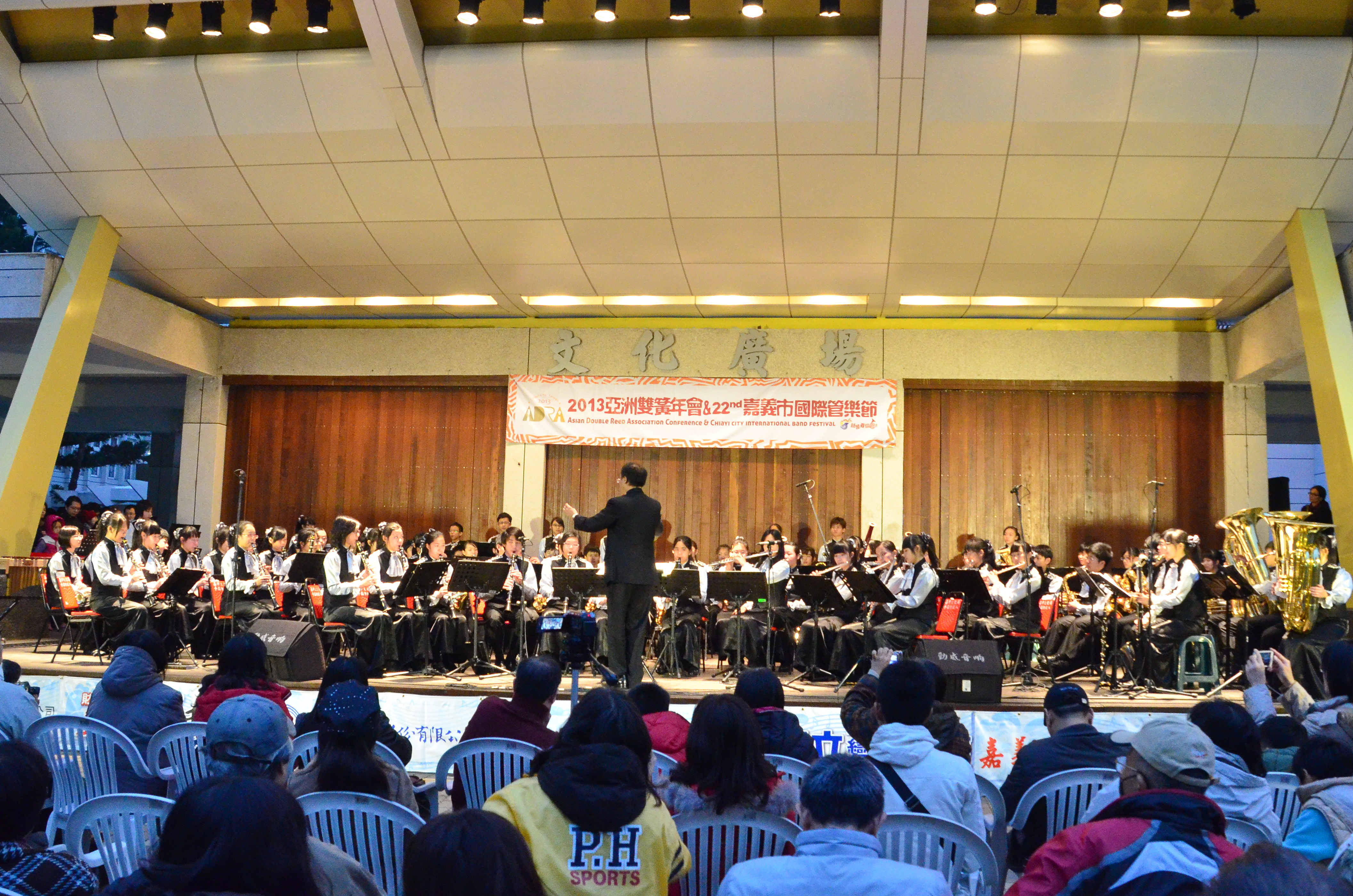 22nd Chiayi City International Band Festival, outdoor concert at the Cultural Square, Chiayi City, Taiwan.